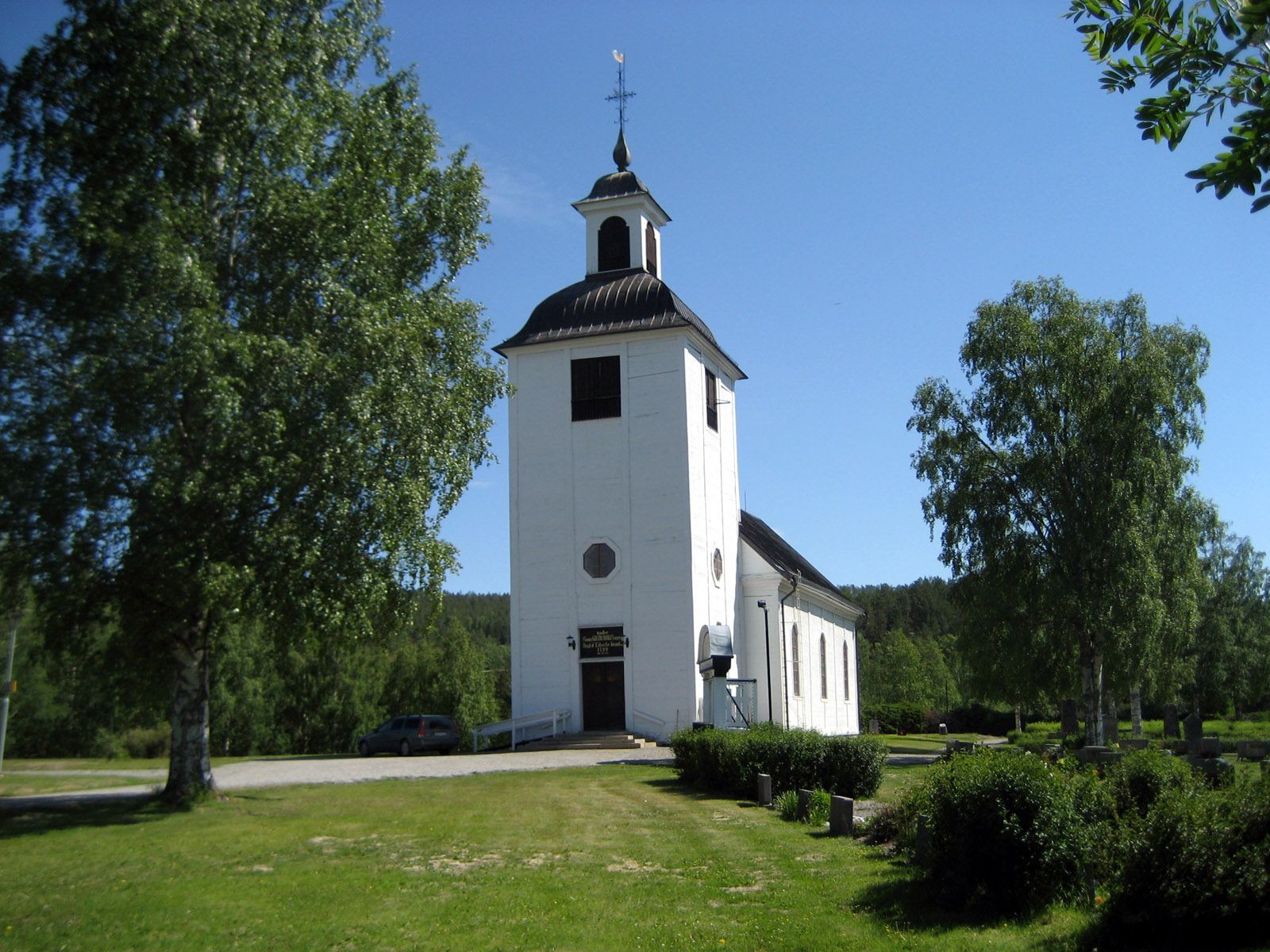 Edsele kyrka in Edsele, Sweden